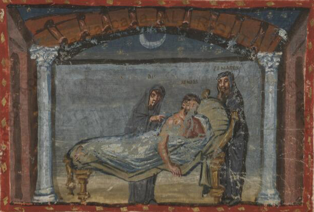 Scene from Vergil, Aeneid, 3.147: The penates call Aeneas to leave Cretes for Italy.